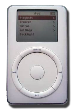 iPod 2G Photo by Jared C. Benedict minus Background